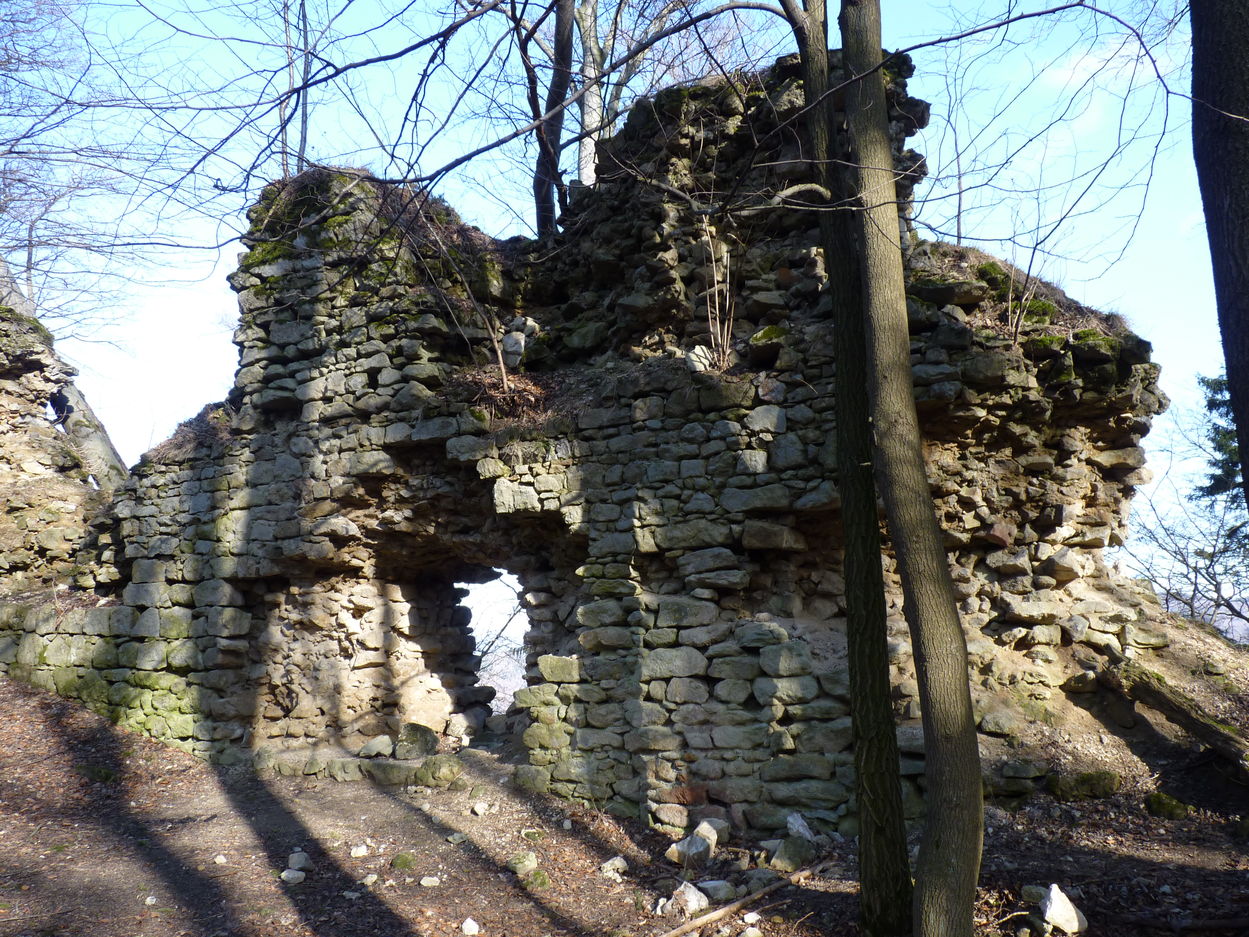 Castle ruin Obřany, Kroměříž District, Zlín Region, Czech Republic Project: Chráněná území